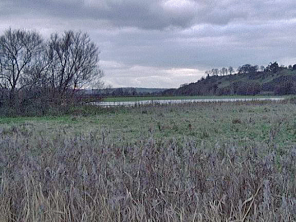 Marshes, Rye, East Sussex, England